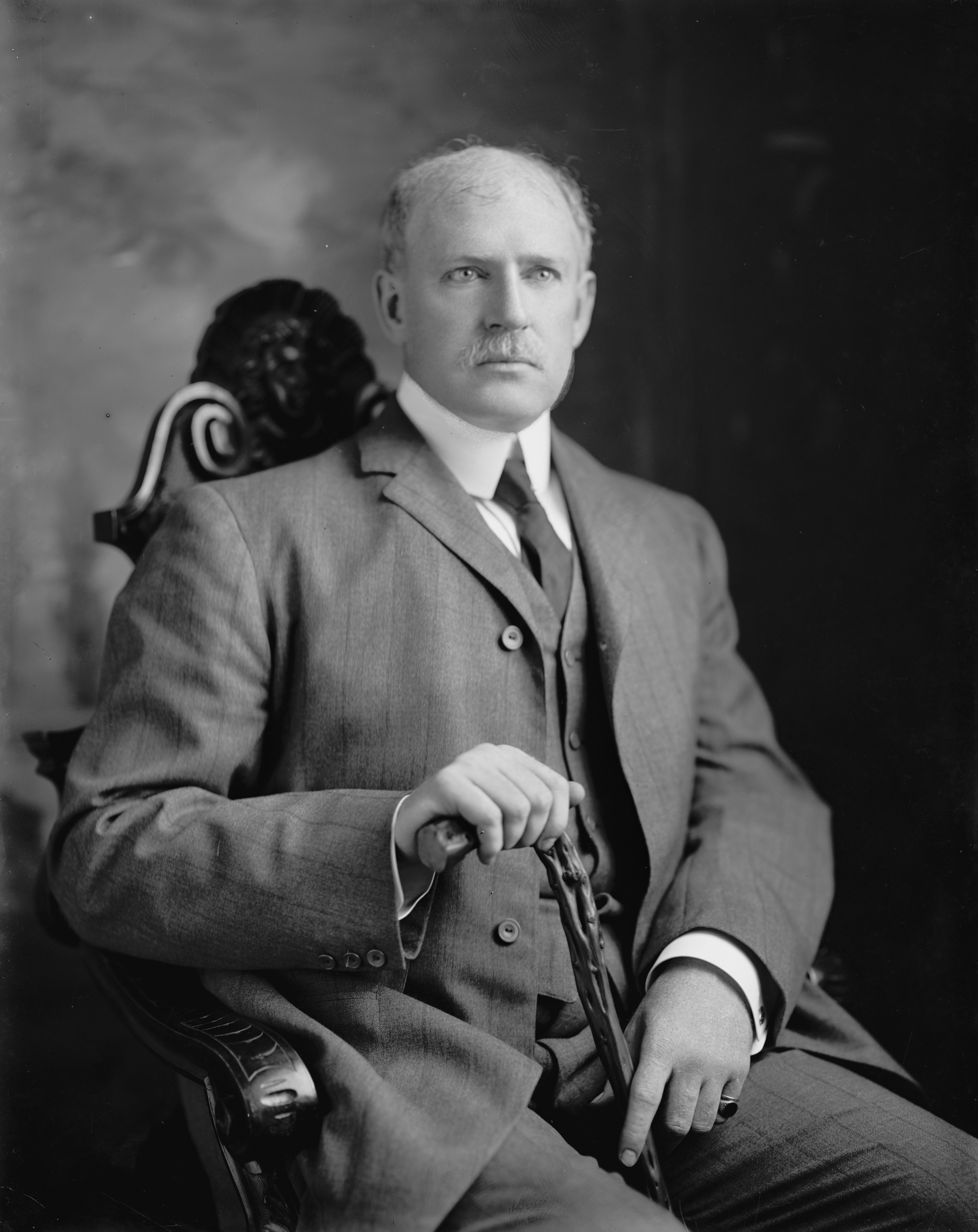 Title: HARLAN, JAMES Abstract/medium: 1 negative : glass ; 8 x 10 in. or smaller